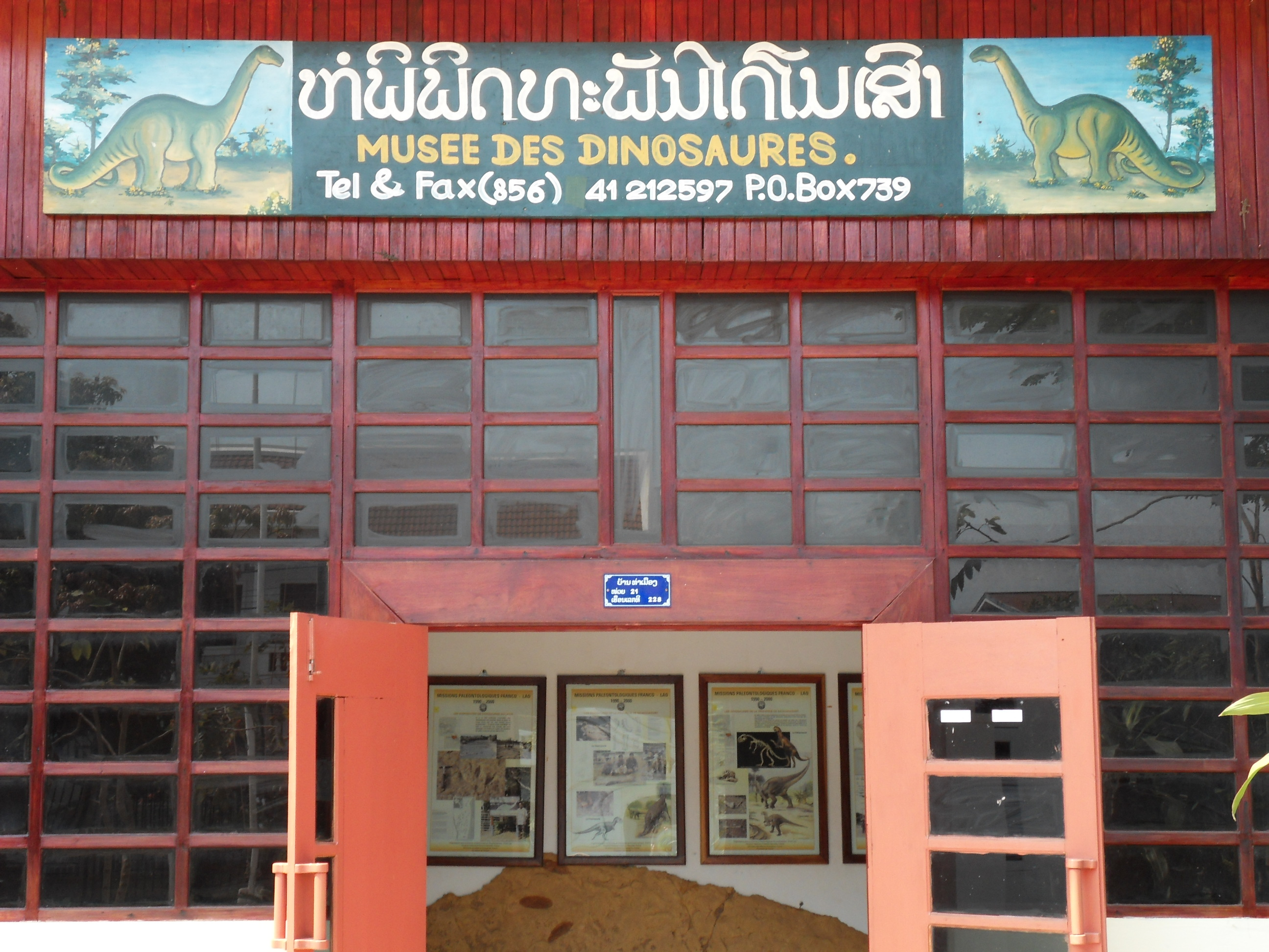 Dinosaur's Museum in Savannakhet, Laos